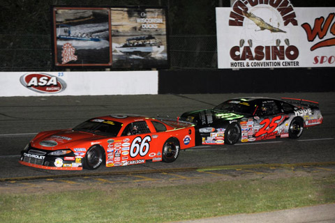 Steve Carlson makes his way through the field in the last half of the race to take the top spot.